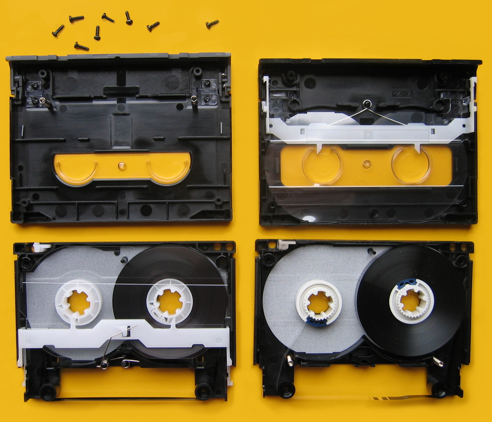 DDS4 Cartritges